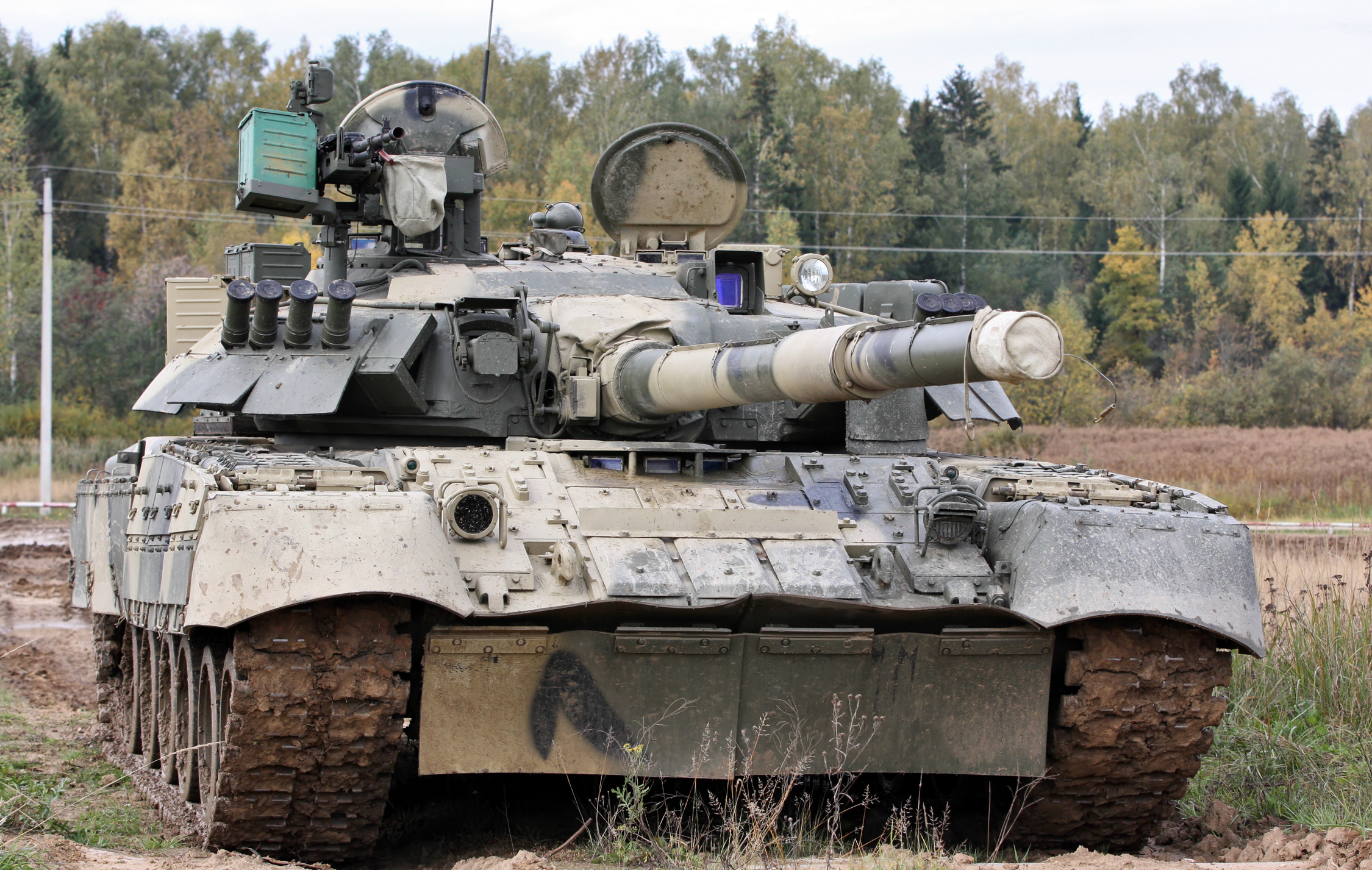 This T-80 prepares firing 12.7 mm machine gun NSVT